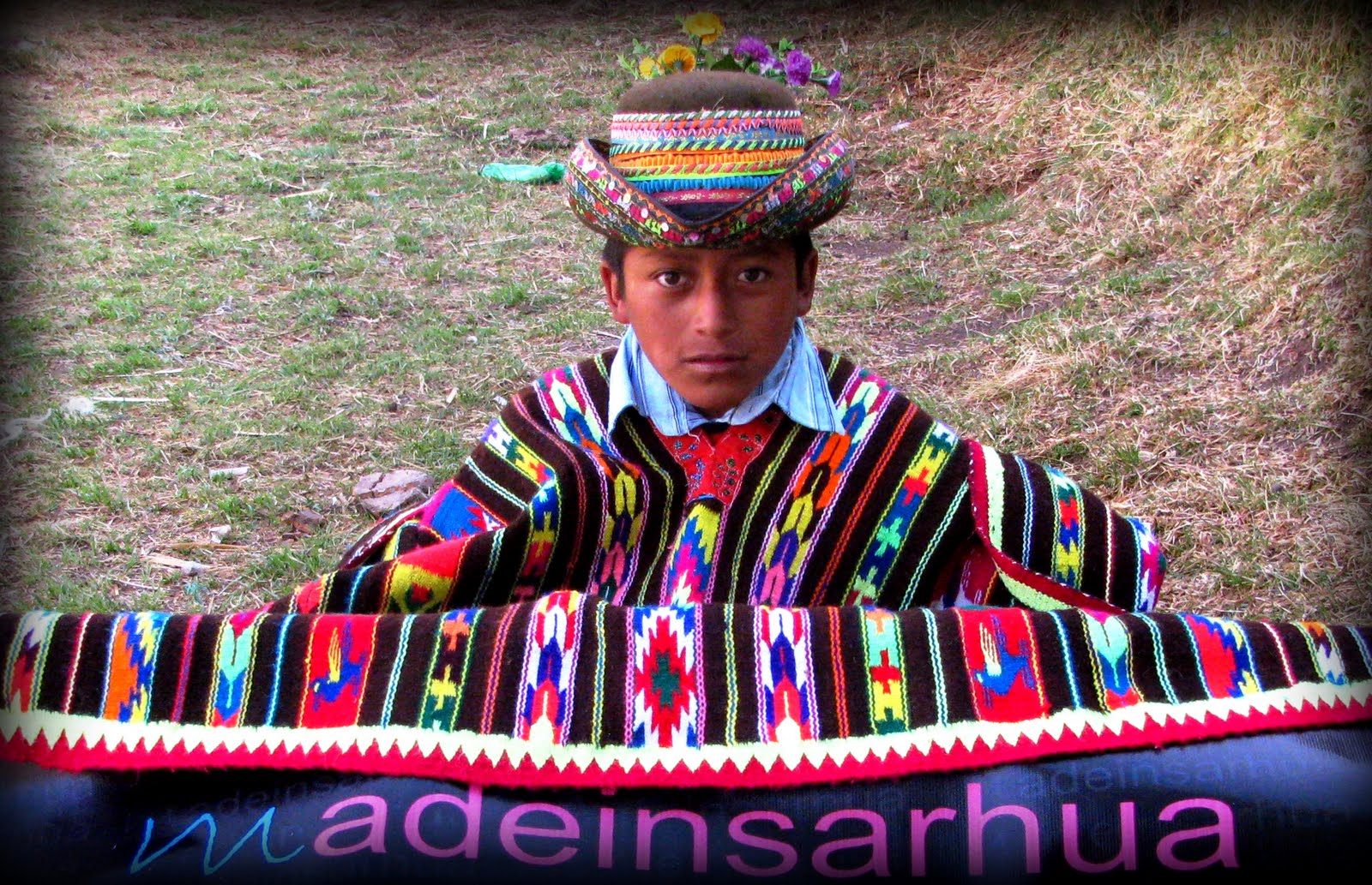 moroponcho de sarhua